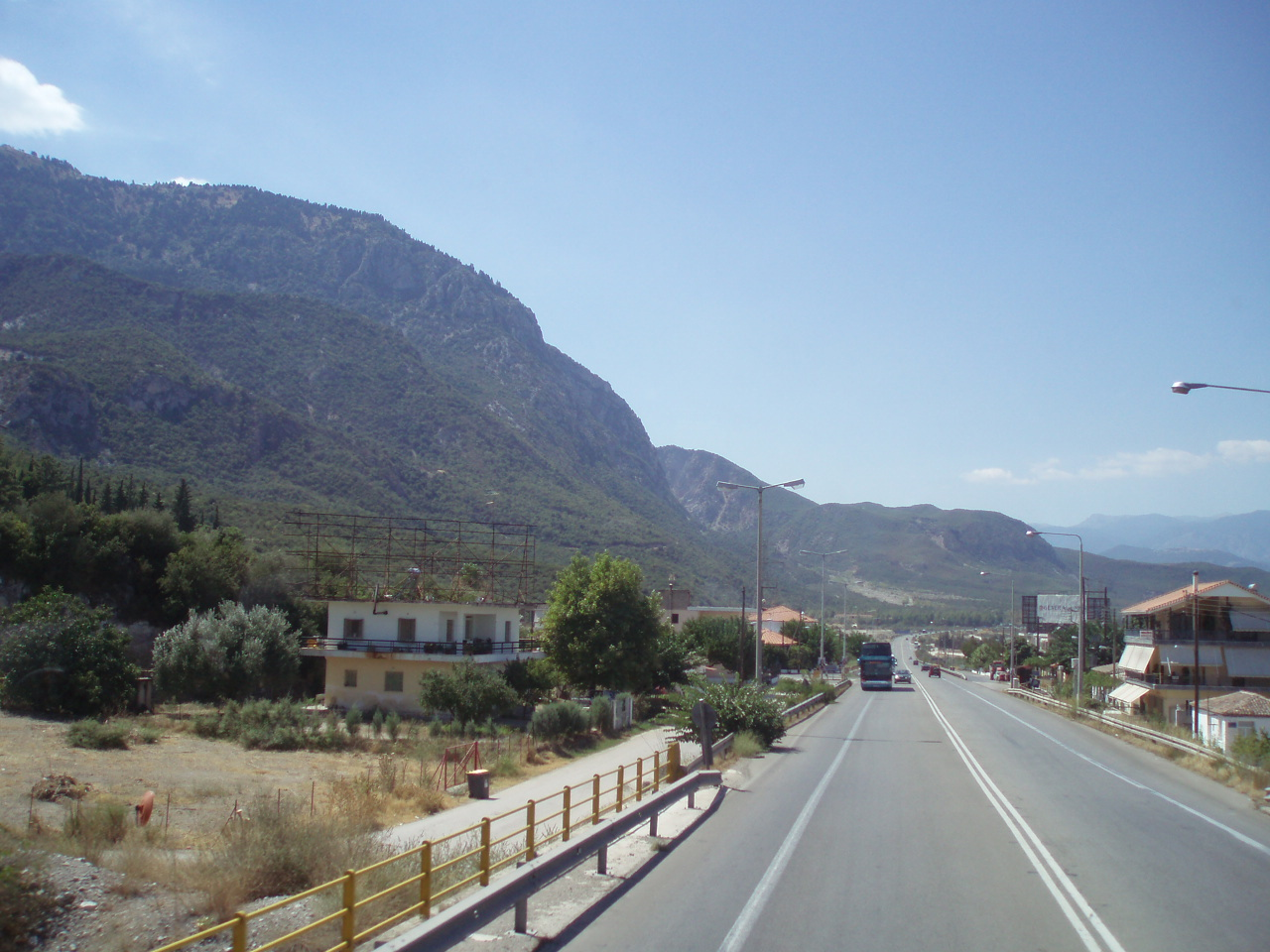 Greek National 1 (ATHE) at Thermopylae (Thermopyles), Greece. Photo was taken 2006 before completion of motorway section in this area in 2008.